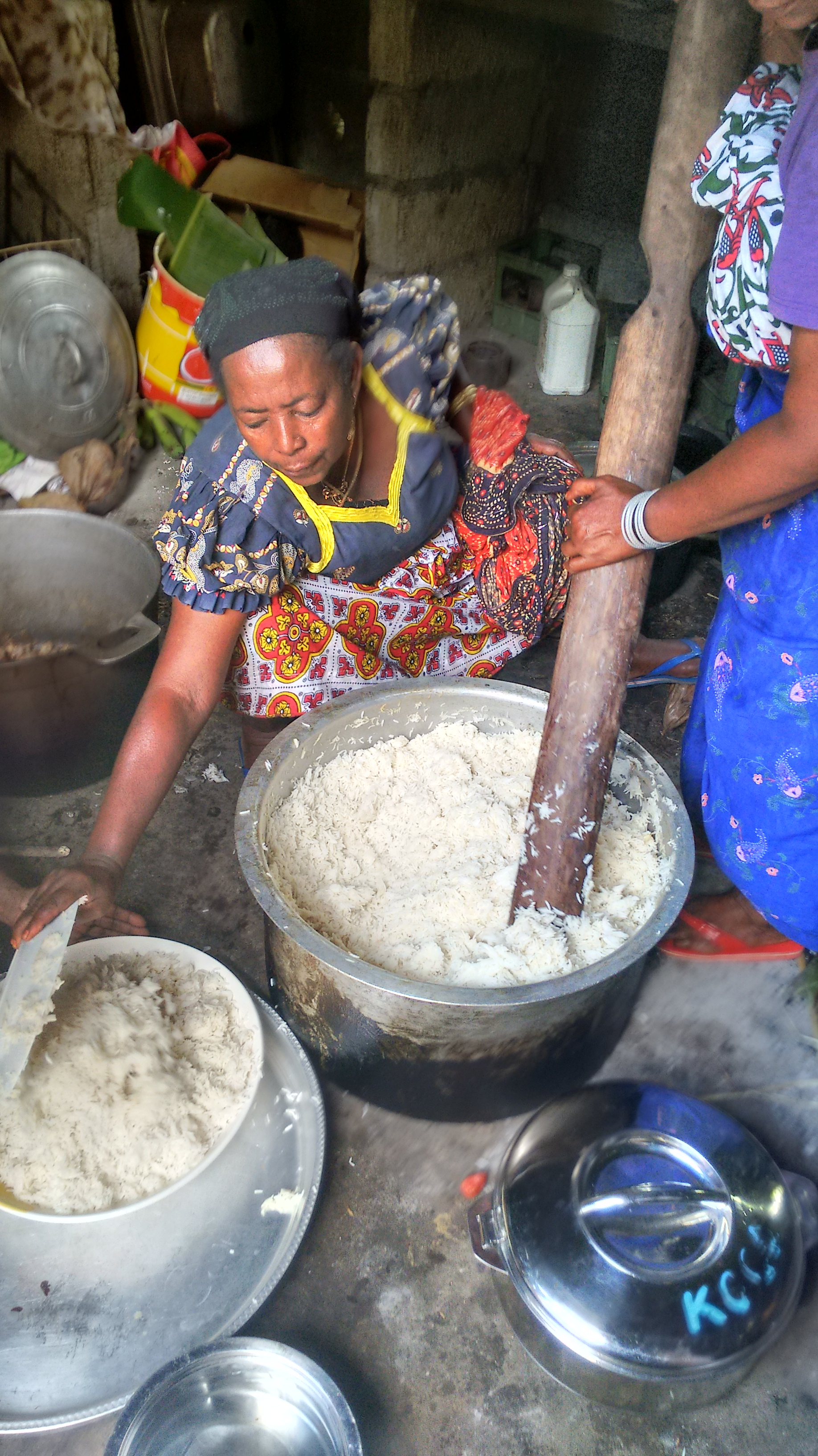 Women make bread to prepare for the celebration of the Mowlid & the birth of a new child This is an image of "African people at work" from Comoros